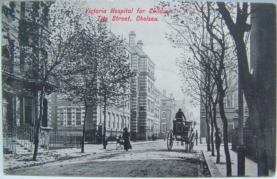 Old postcard of Victoria Hospital for Children in Tite Street, London